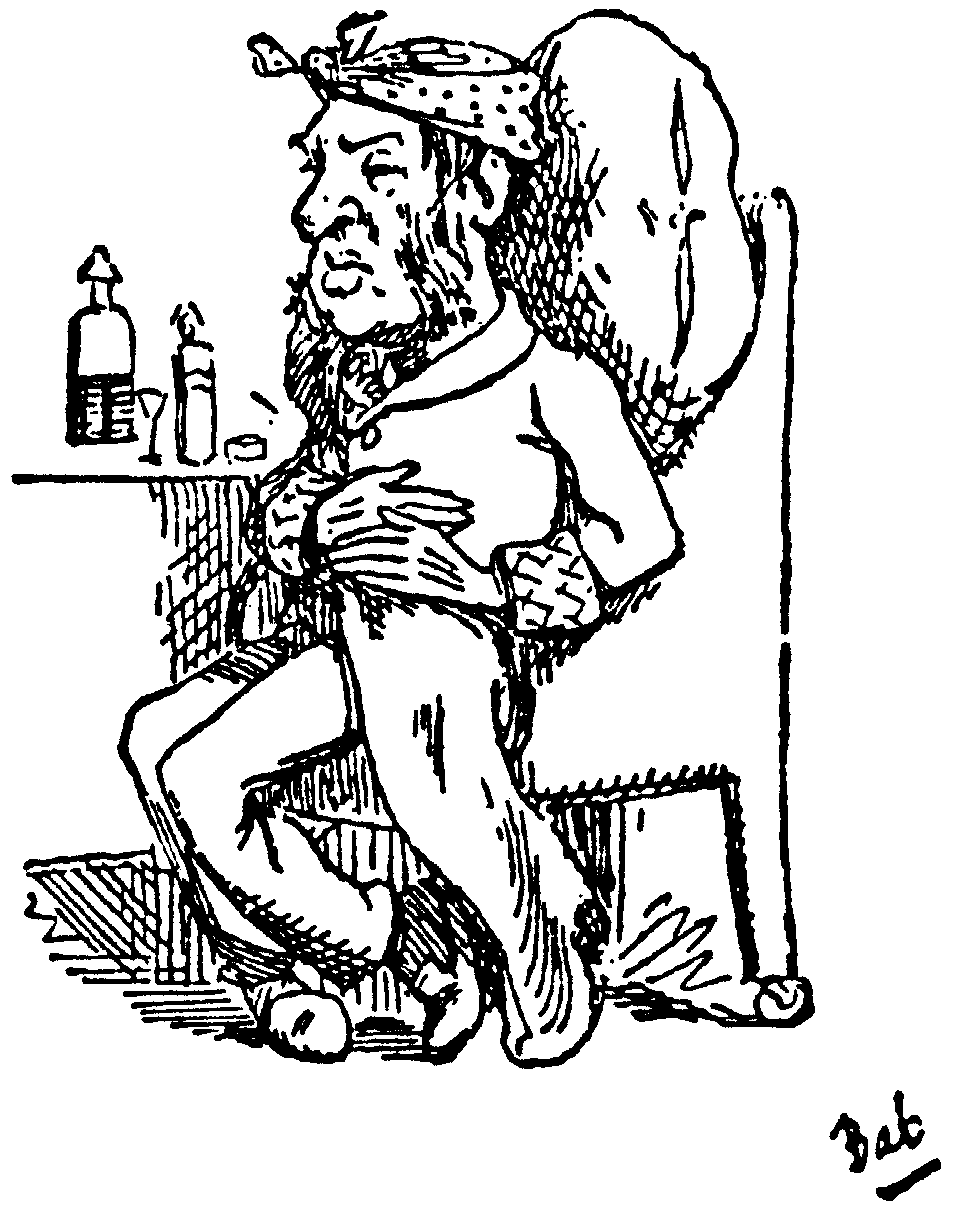 Drawing by W. S. Gilbert from Songs of a Savoyard, 1890. This drawing illustrates the song, "When you find you’re a broken-down critter" from The Grand Duke.